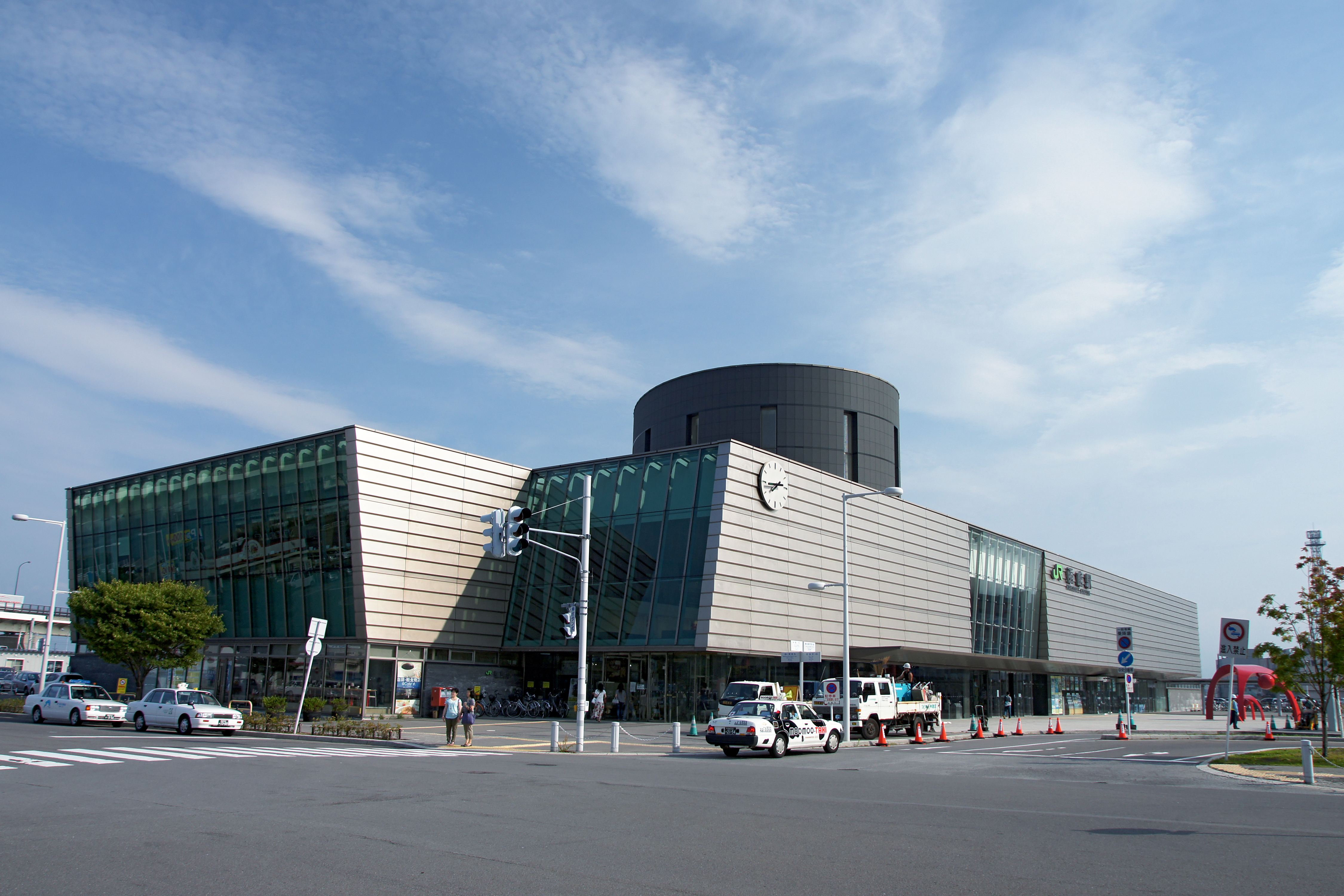 Hakodate Station in Hakodate, Hokkaido prefecture, Japan